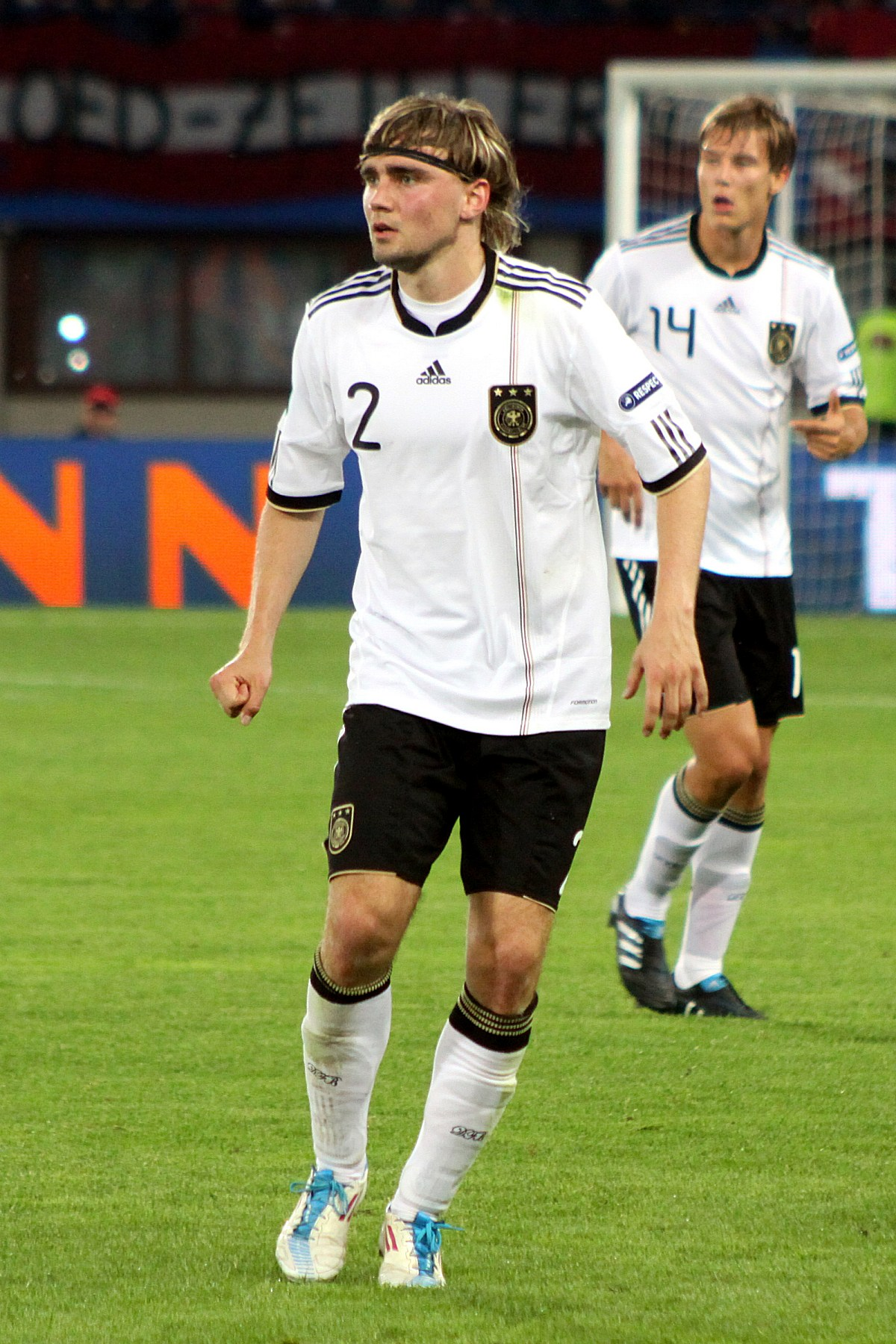 Marcel Schmelzer (Borussia Dortmund), german national football team